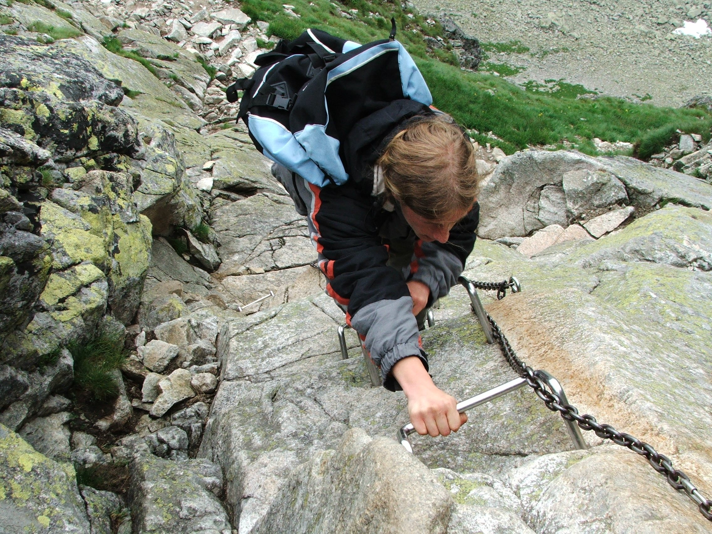 Orla Perć (High Tatra Mountains)